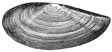 Illustration of a yoldia limatula, a bivalve mullosk. The original caption read: Fig. 356.--Yoldia limatula. (From Binney-Gould.)